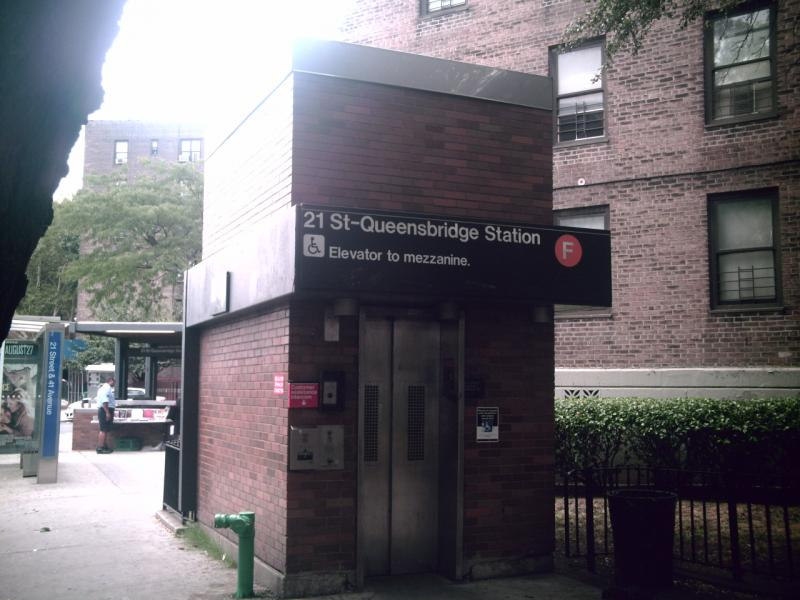 Elevator at 21st Street-Queensbridge